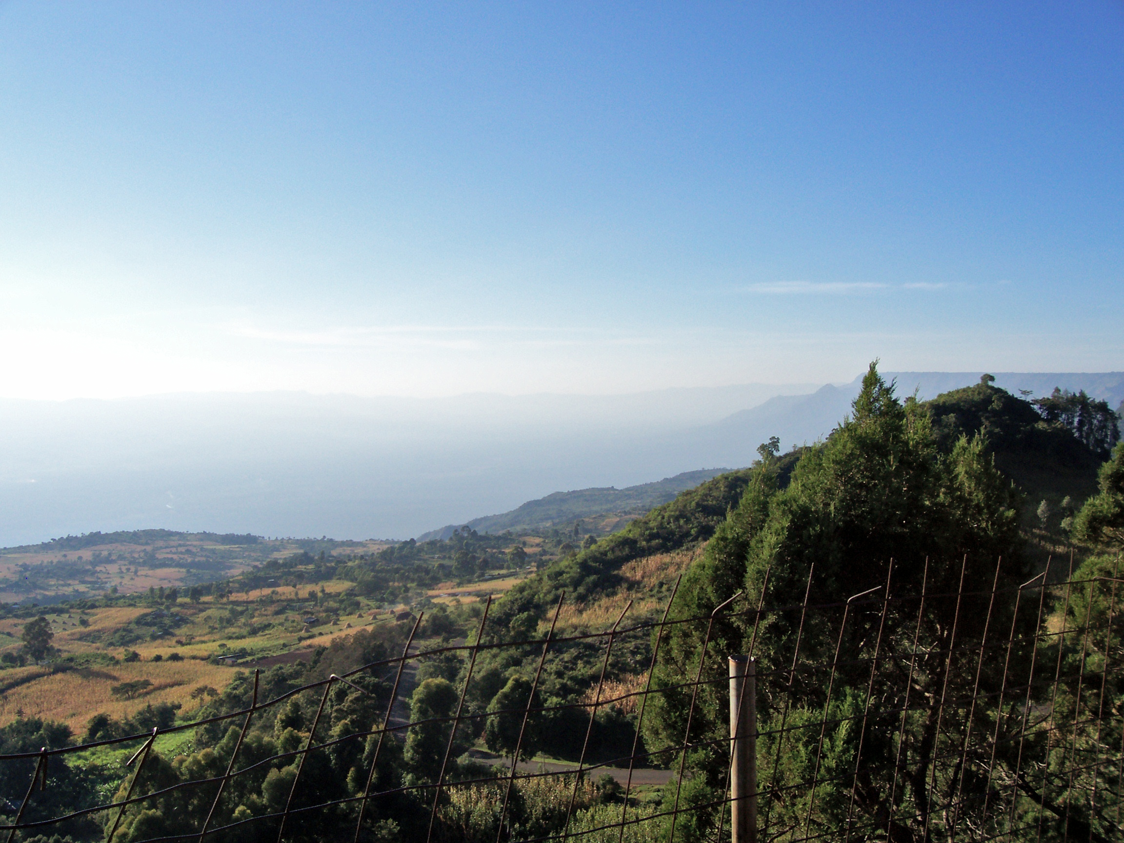 This is a photo of the Great Rift Valley as it is visible near Eldoret, Kenya. It was taken by Michael Shade in the fall of 2006. Use it for whatever.